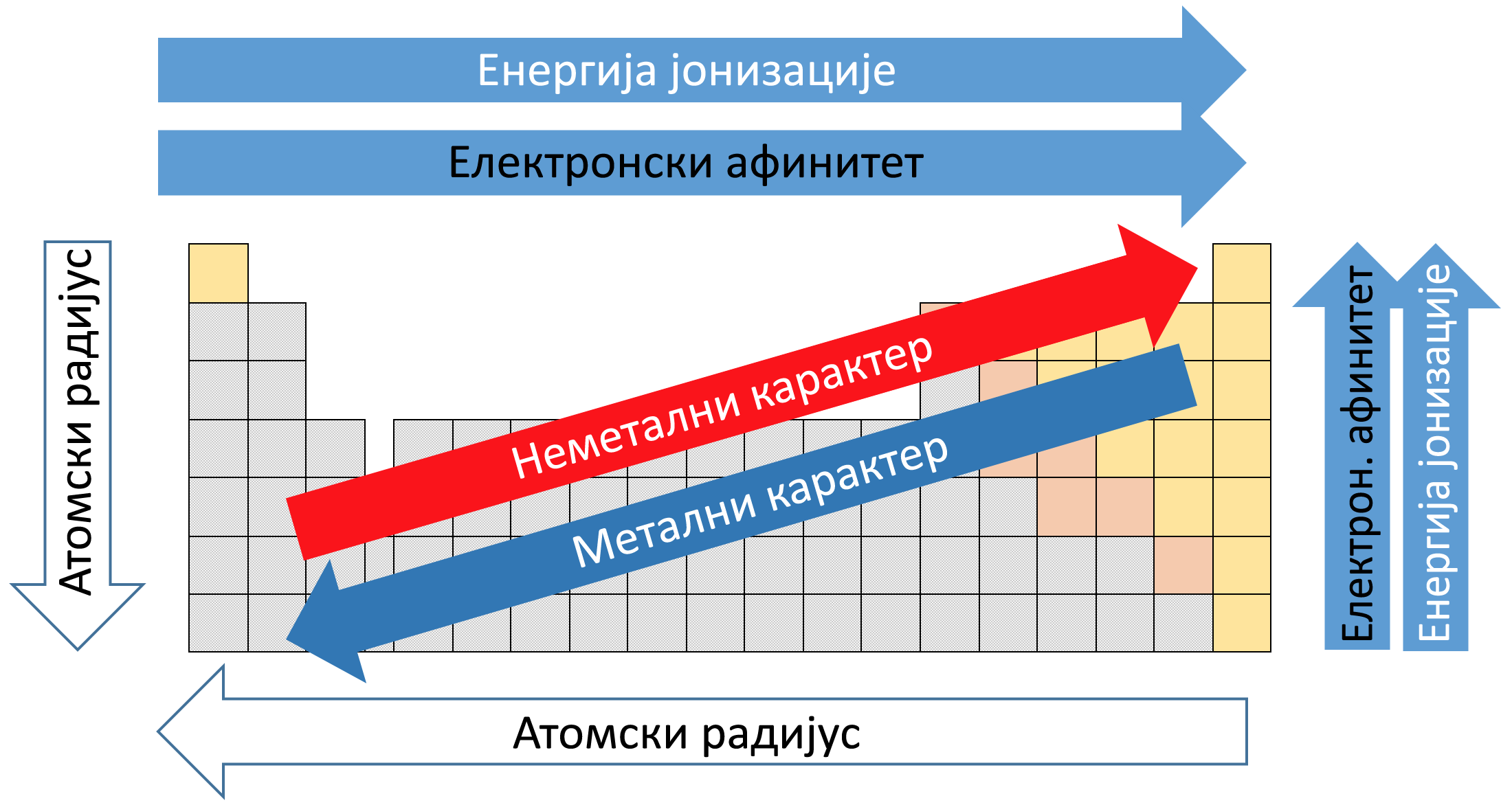 Various periodic trends [in Serbian]